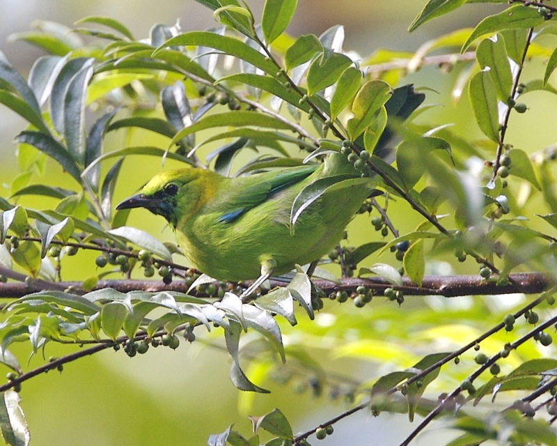 Panti forest, Johor 5th. October 2008